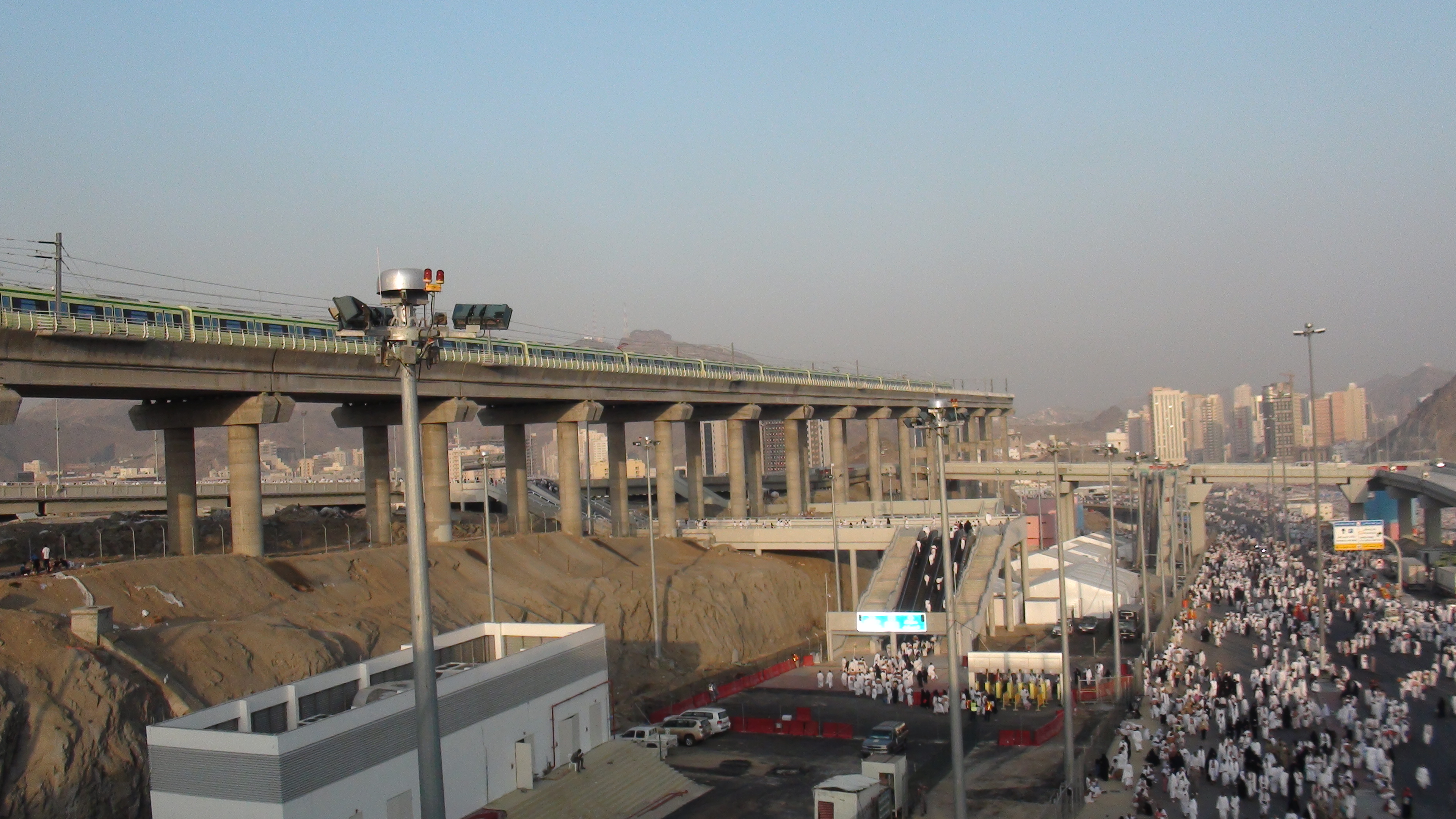 Mina area, Saudi Arabia